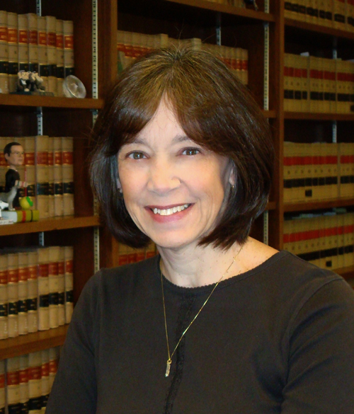 Diane P. Wood in 2008